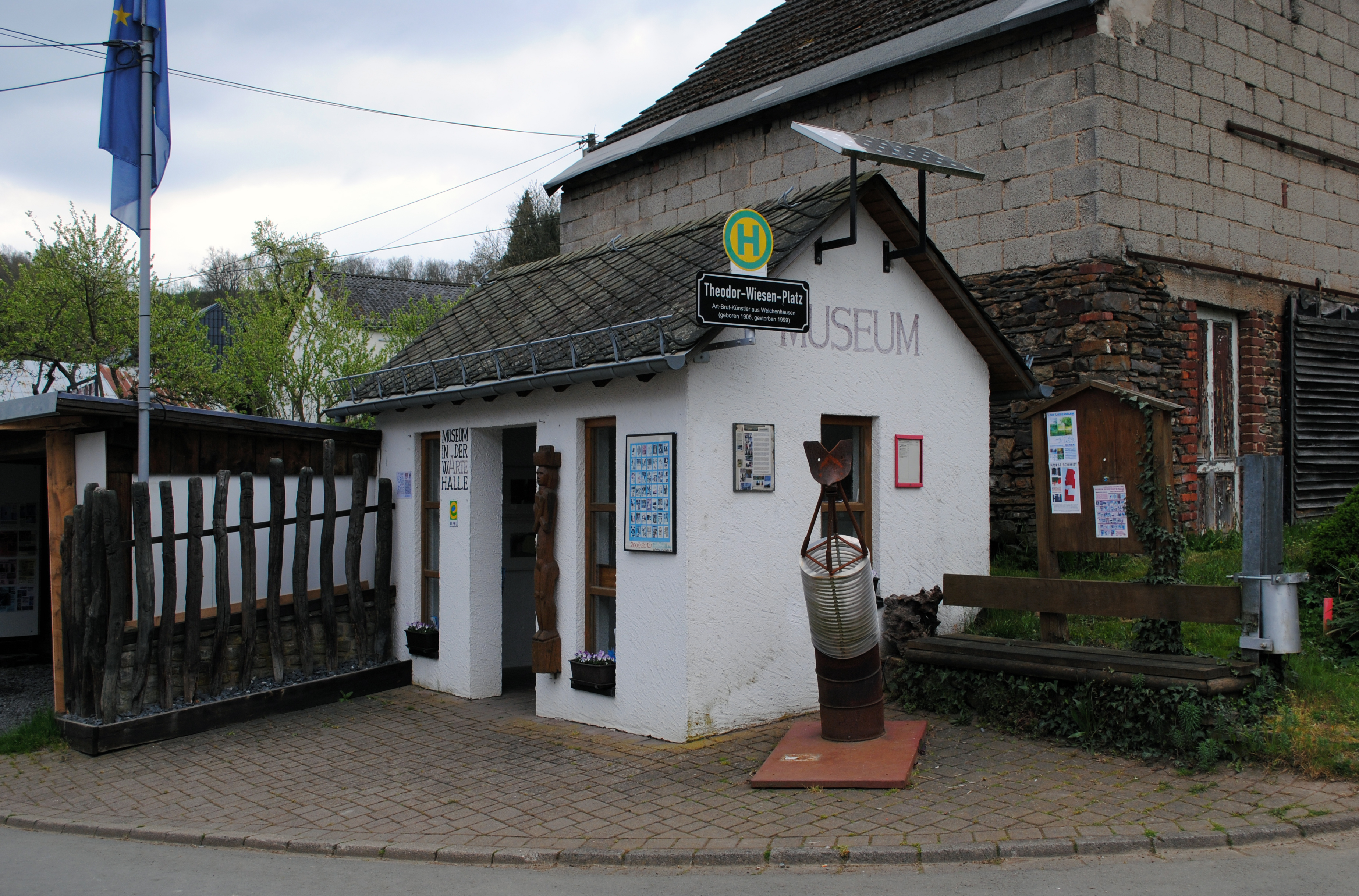 Museum "Wartehalle" Lützkampen-Welchenhausen